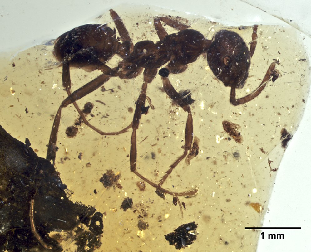 View of the Gerontoformica occidentalis (syn Sphecomyrmodes occidentalis) holotype specimen, MNHNA30165. Charentese amber, France, Albian-Cenomanian (100 million years old)